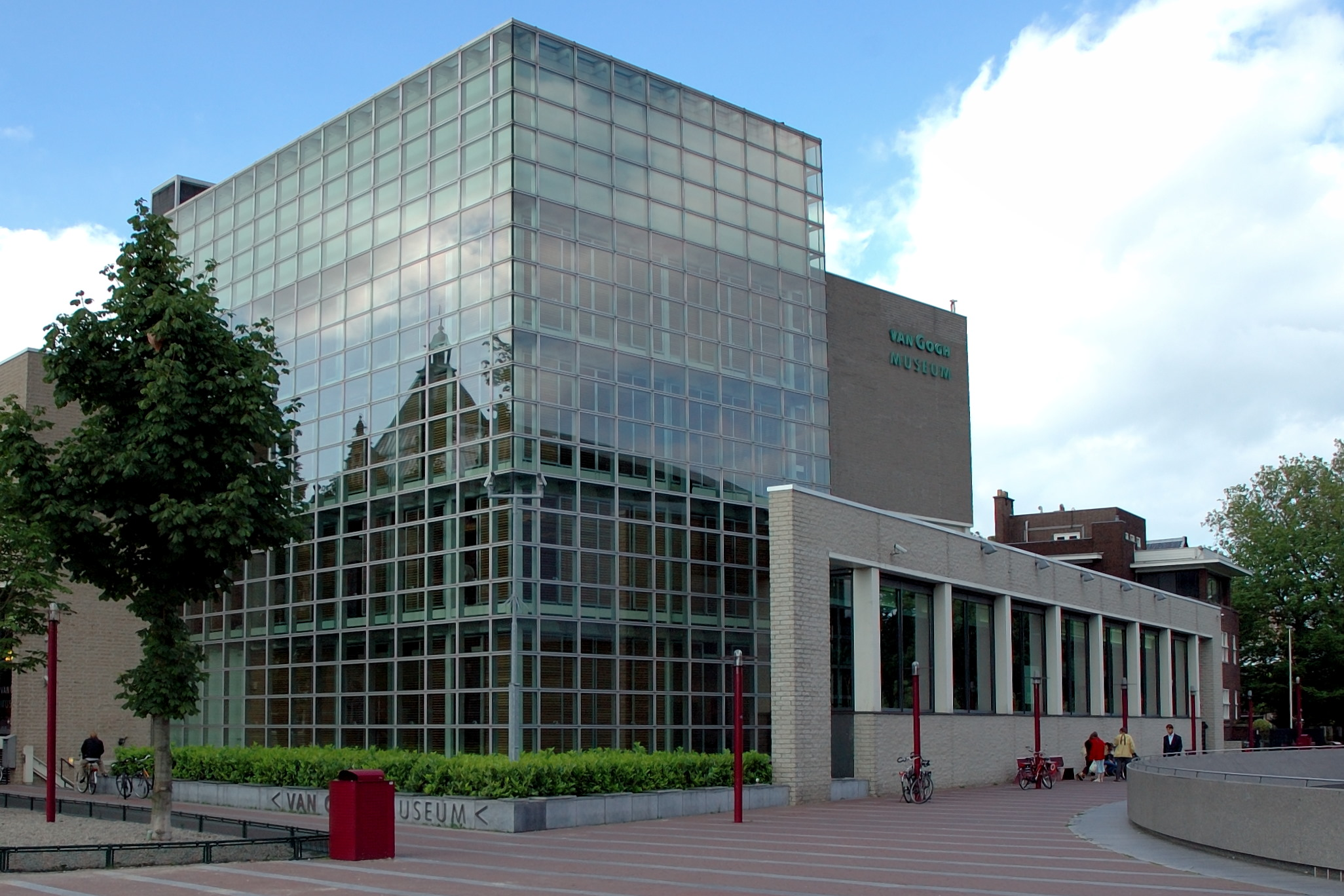 Back view of the Van Gogh Museum Amsterdam